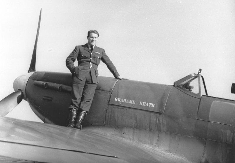 photograph of Barry Heath